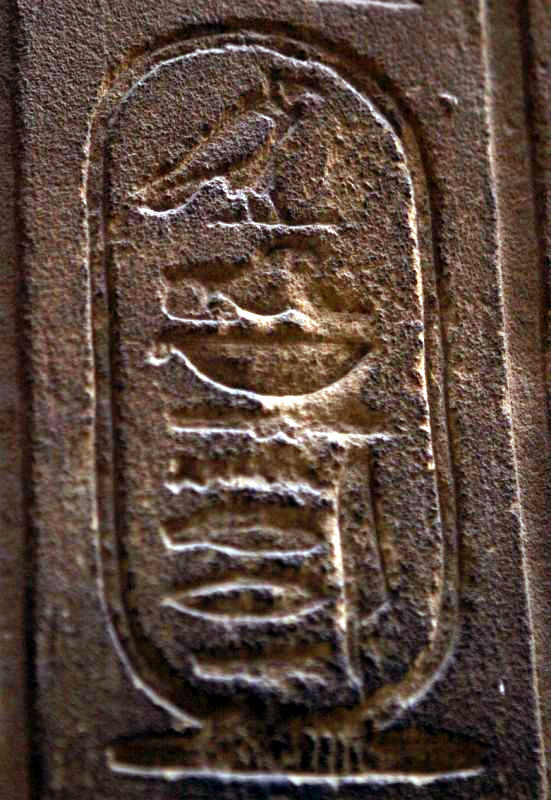 Cartouche of Alexander the Great in Luxor, Egypt